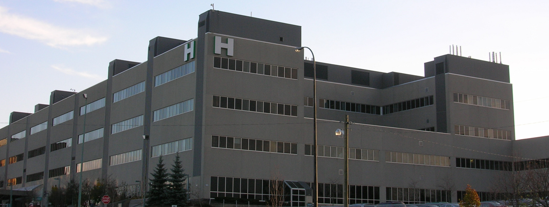 An image of the George Dumont hospital in Moncton.